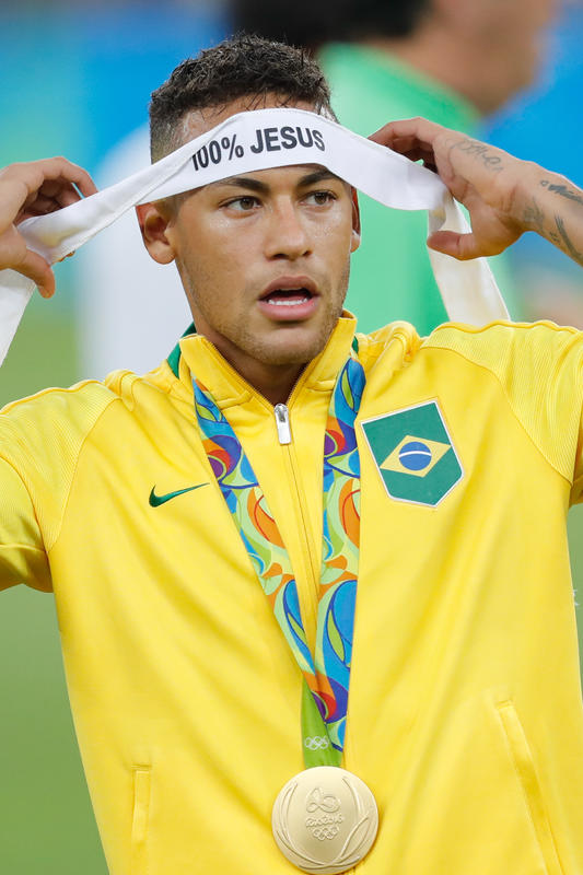 Rio de Janeiro - Brasil vence Alemanha e conquista primeiro ouro olímpico do futebol (Fernando Frazão/Agência Brasil)